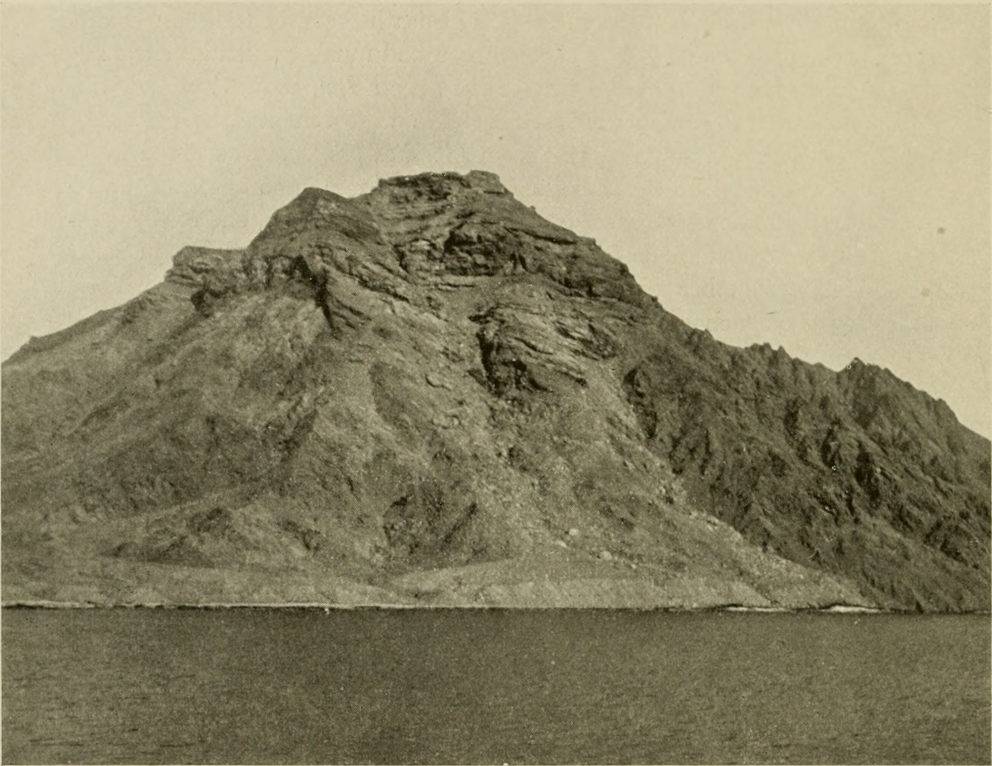 1898 photograph of Jebel Saleh on Abd al Kuri, from The Natural History of Socotra and Abd-el-kuri